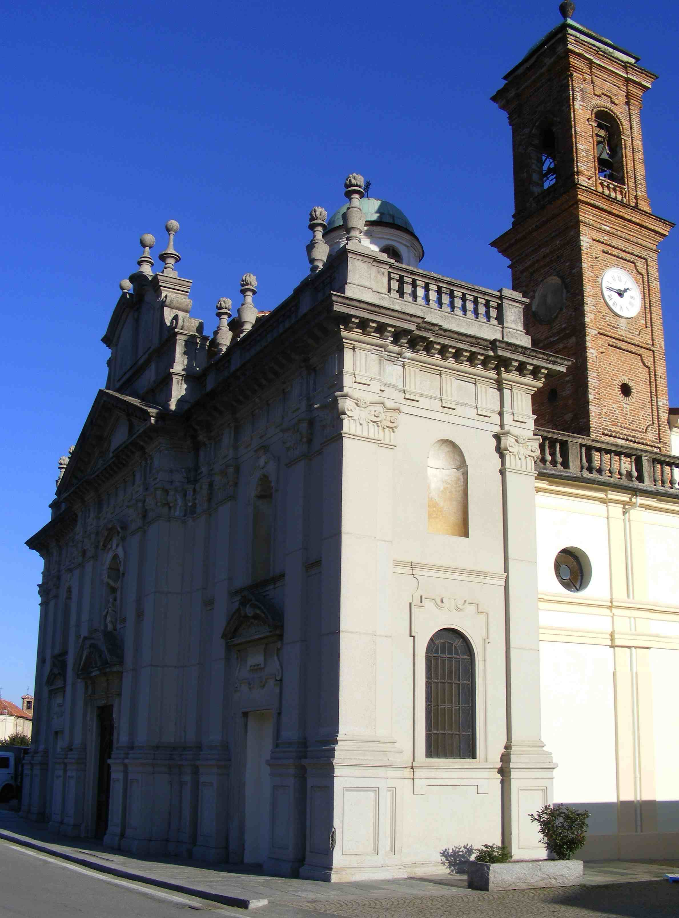 Pertusio: Saint Firmino church, in Canavese, Piedmont, Italy